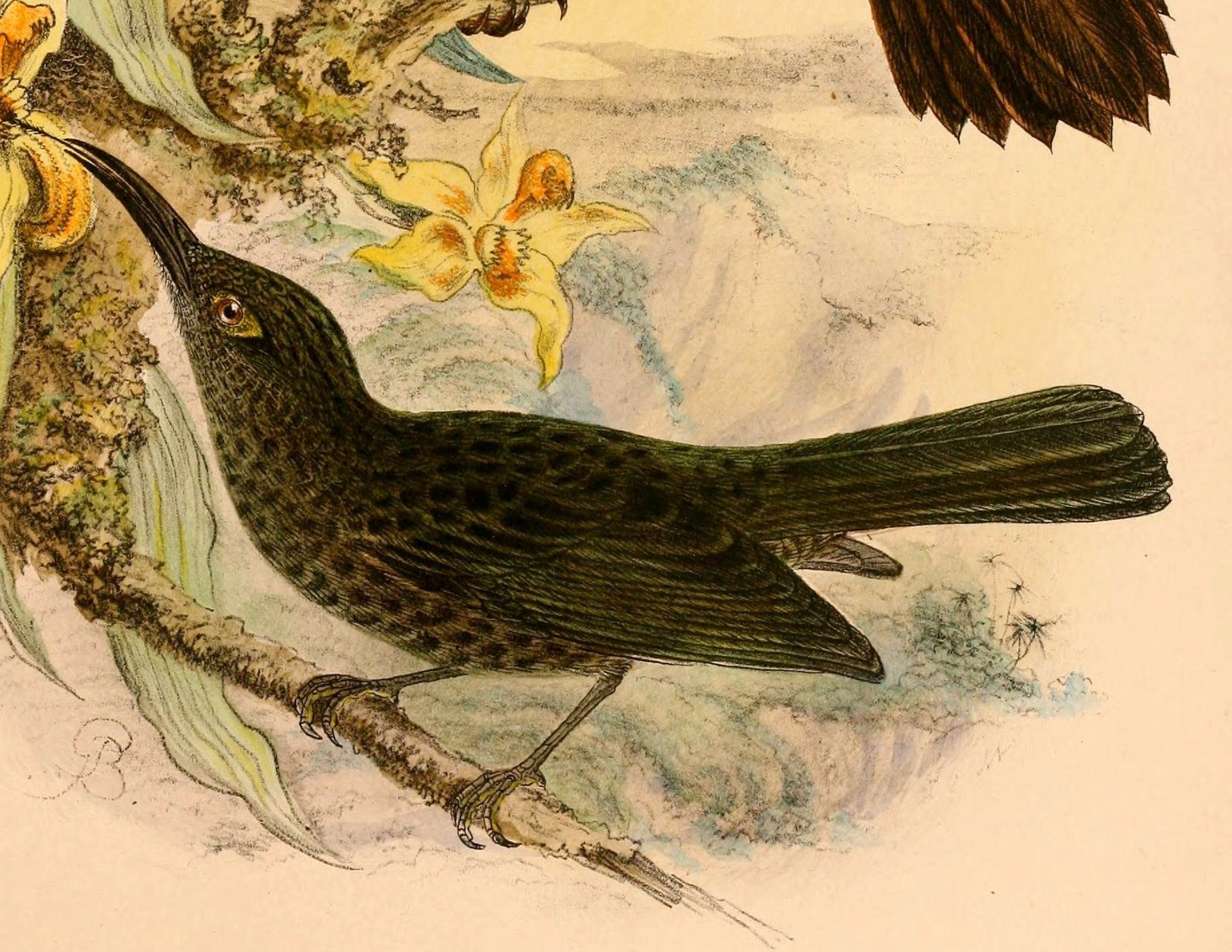 « Melilestes celebensis » = Myza celebensis celebensis (Subspecies of Dark-eared Myza)